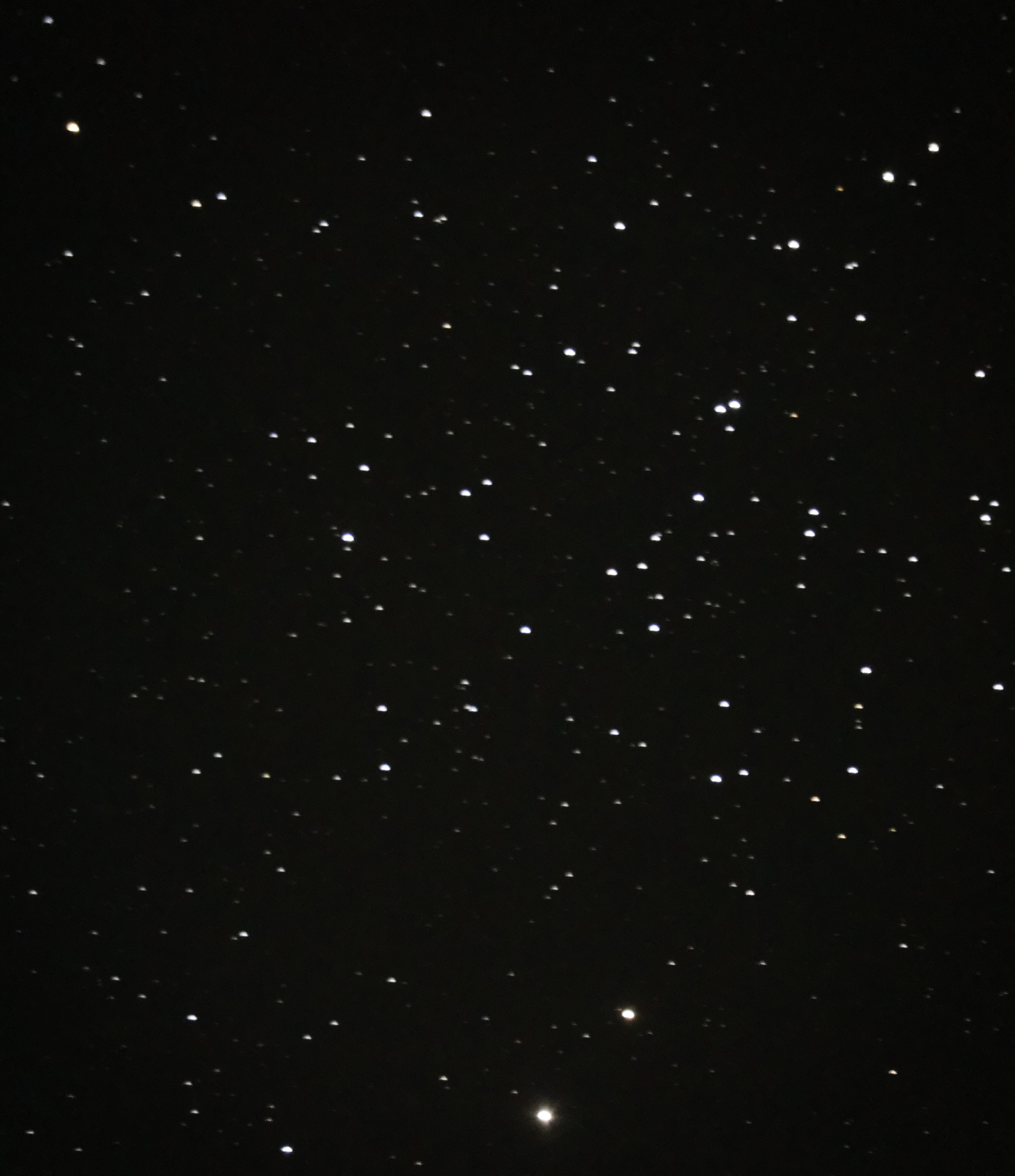 The open cluster NGC 1647, photographed through a Celestron C 9 1/4 Schmidt-Cassegrain.